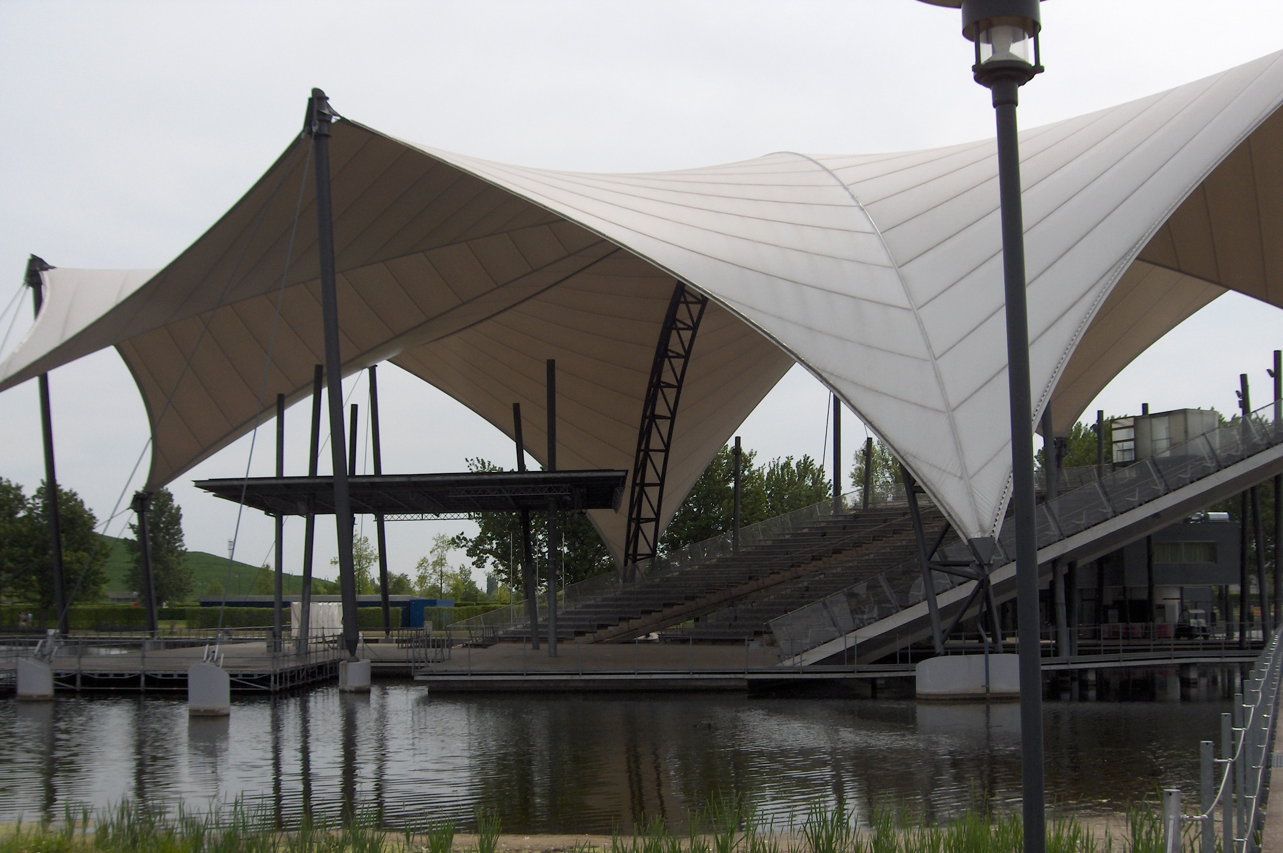 The "Seebühne" in the public garden "Elbauenpark" in Magdeburg, Germany